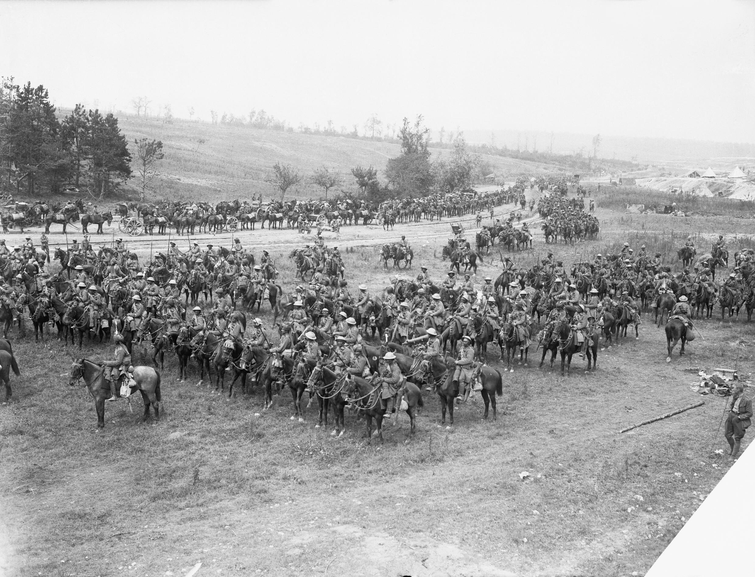 The Battle of the Somme, 1 July – 18 November 1916 Battle of Bazentin Ridge 14 -17 July: The Deccan horse drawn up in ranks in the Carnoy Valley waiting for the opportunity to attack. It was intended that cavalry forces should take over the advance after the infantry had breached the defences but their opportunity never occurred during months of battle.